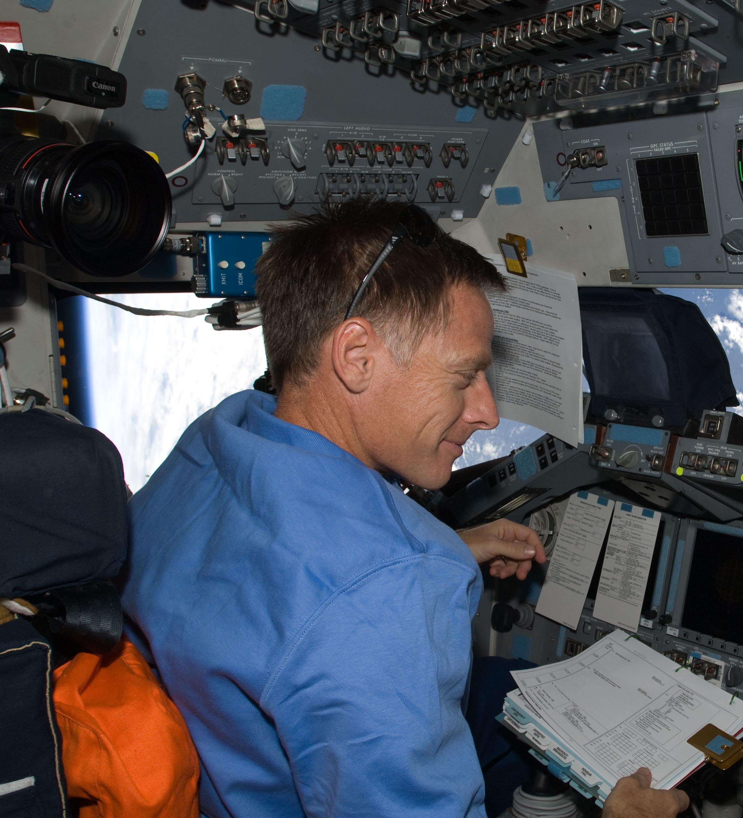 Astronaut Chris Ferguson, STS-126 commander, occupies the commander's station on the forward flight deck of Space Shuttle Endeavour during rendezvous and docking operations with the International Space Station.